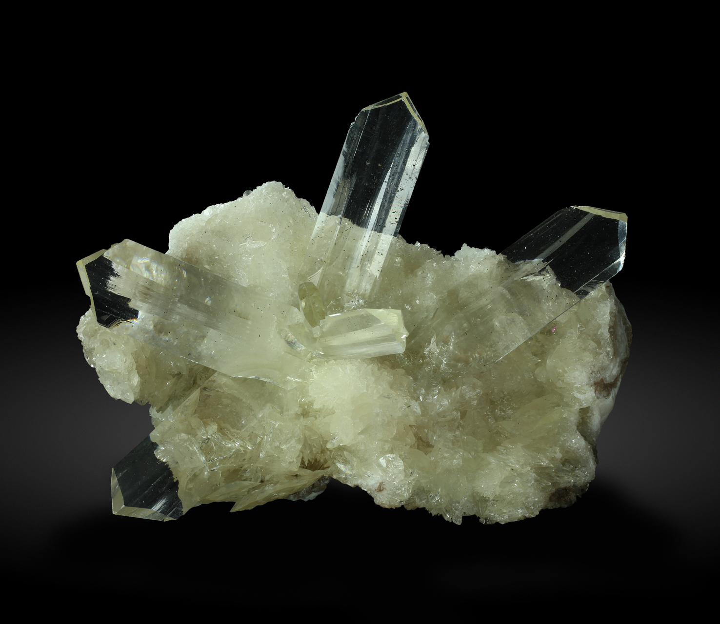 Gyssum crystals in alabaster. Fuentes de Ebro, Zaragoza, Spain. J. Callén photo, M. Calvo coll.